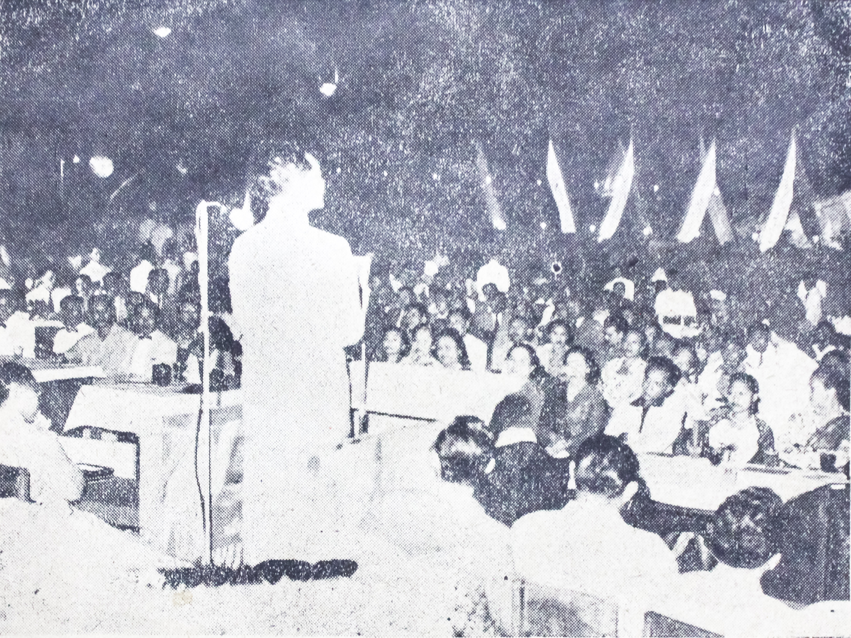 Closing Ceremony of the first Indonesian Film Festival